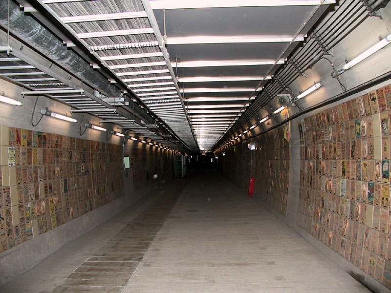 吉岡海底車站月台旁的側向涵洞，兩邊牆上貼滿了來訪學童的畫作與留言The side tunnel of Yoshioka Kaitei Station